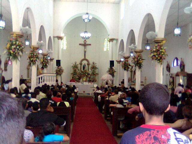 Mass at Church of Saint Anne, state of Anzoátegui, Venezuela.